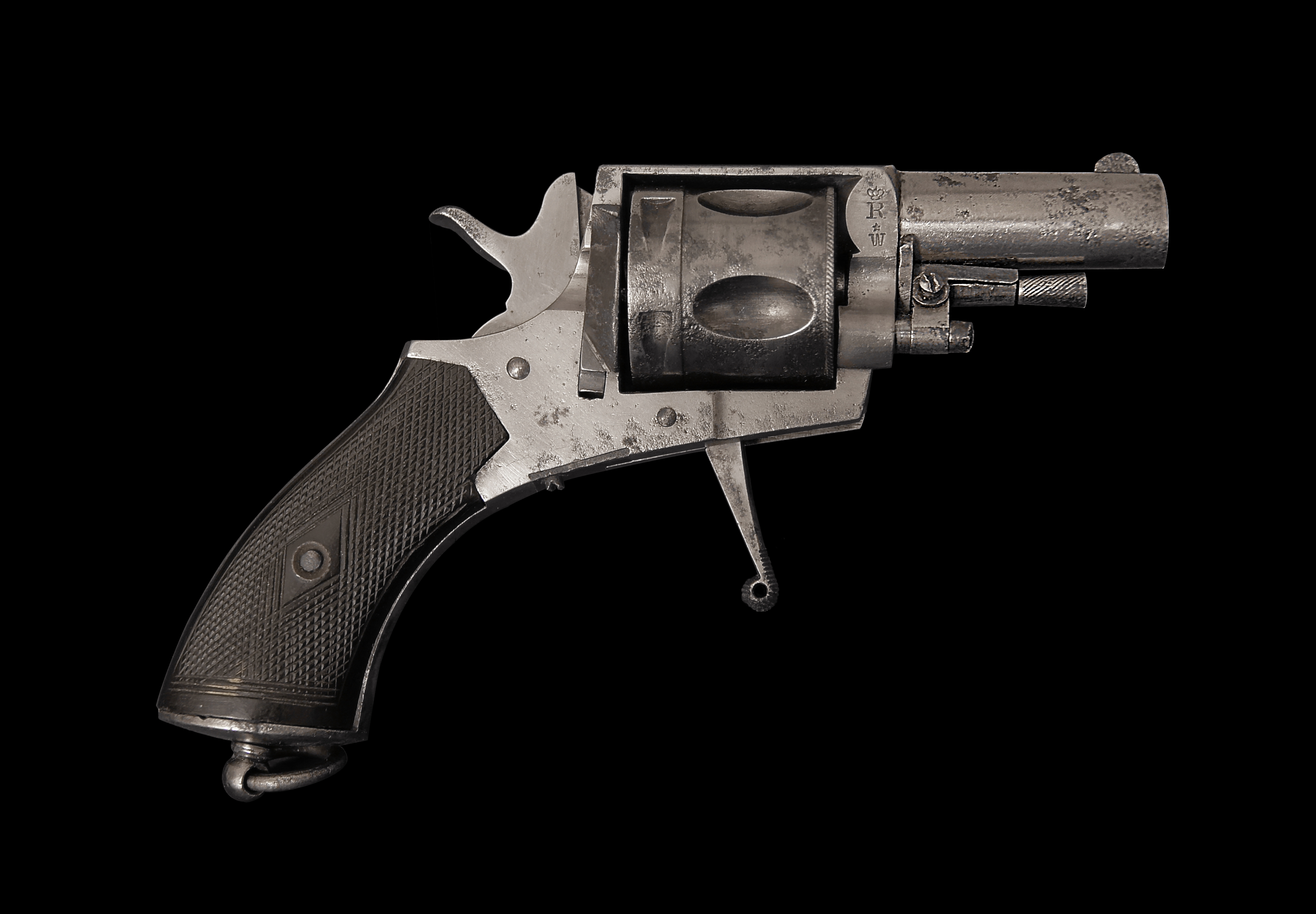 Belgian replica with smaller caliber of a Webley N°2, "British Bulldog", send in France by Lepage, end of 19th century.